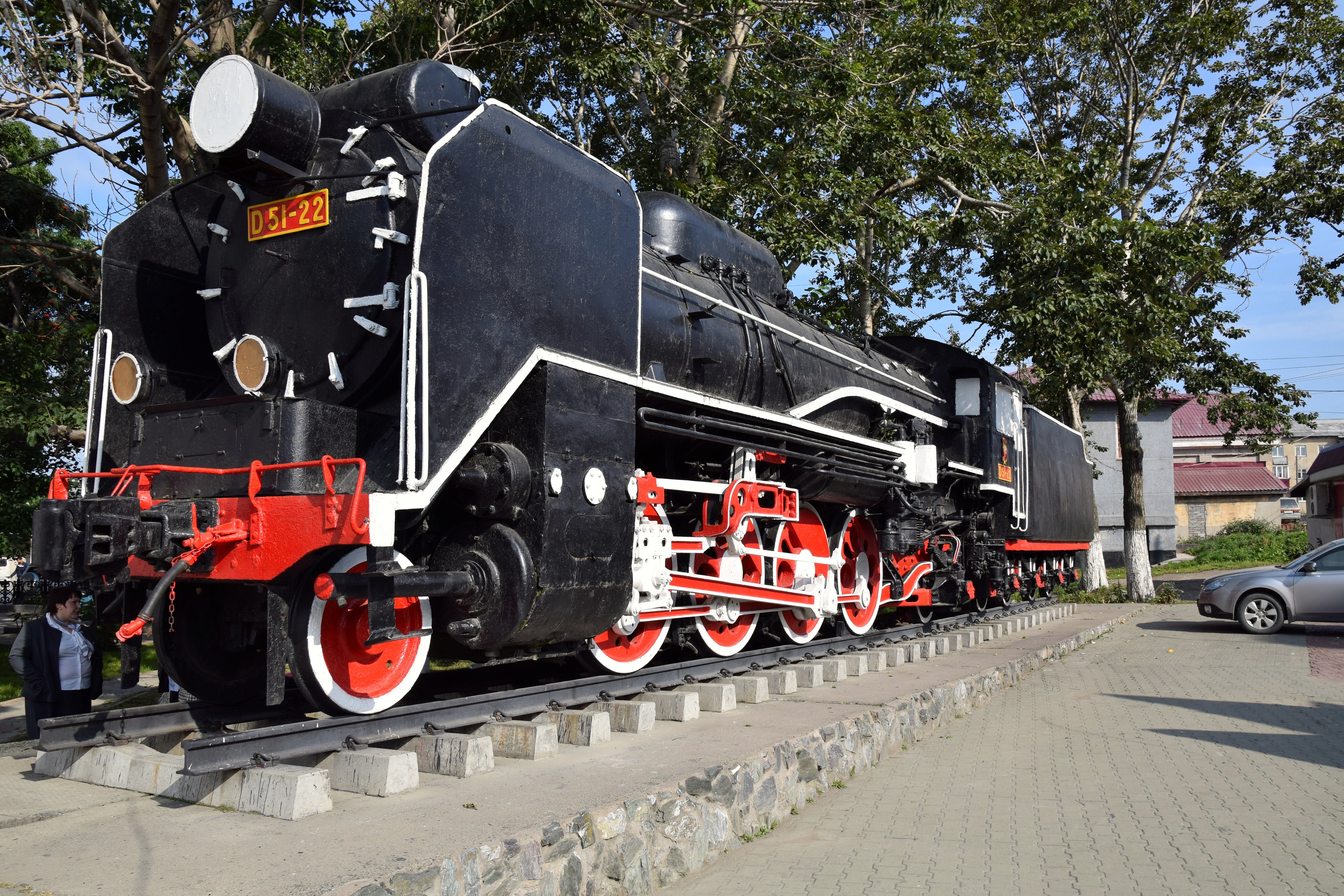 Japanese D51-22 Locomotive